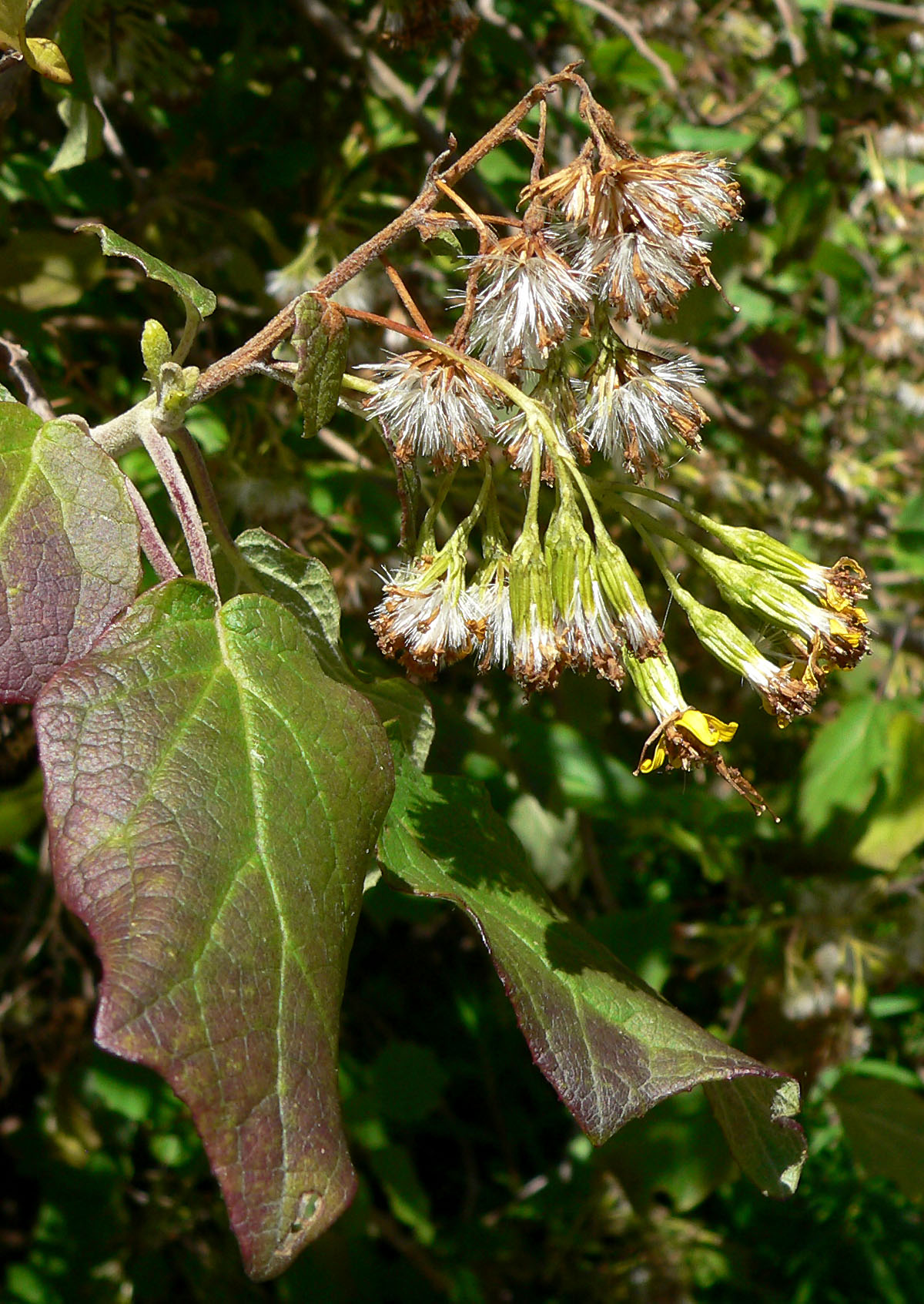 Senecio aschenborianus at the University of California Botanical Garden, Berkeley, California